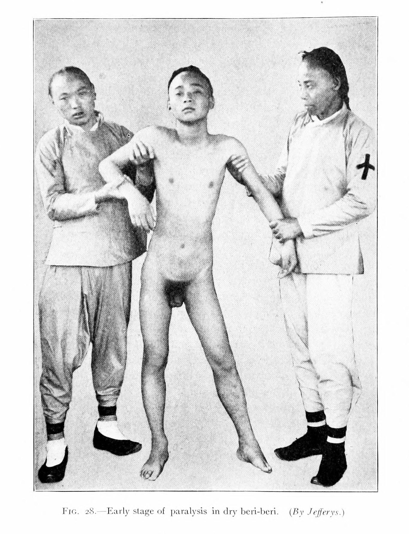 Fig. 28. Early stage of paralysis in dry beri-beri